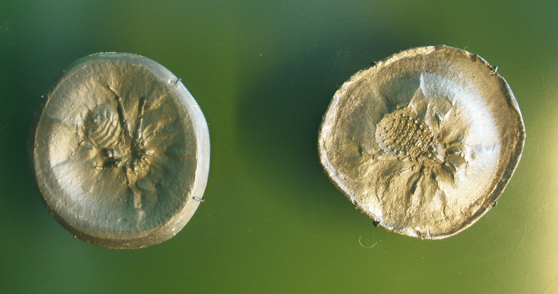 Fossil of Eophrynus, an extinct arachnid. Took the photo at Musee d'Histoire Naturelle, Brussels